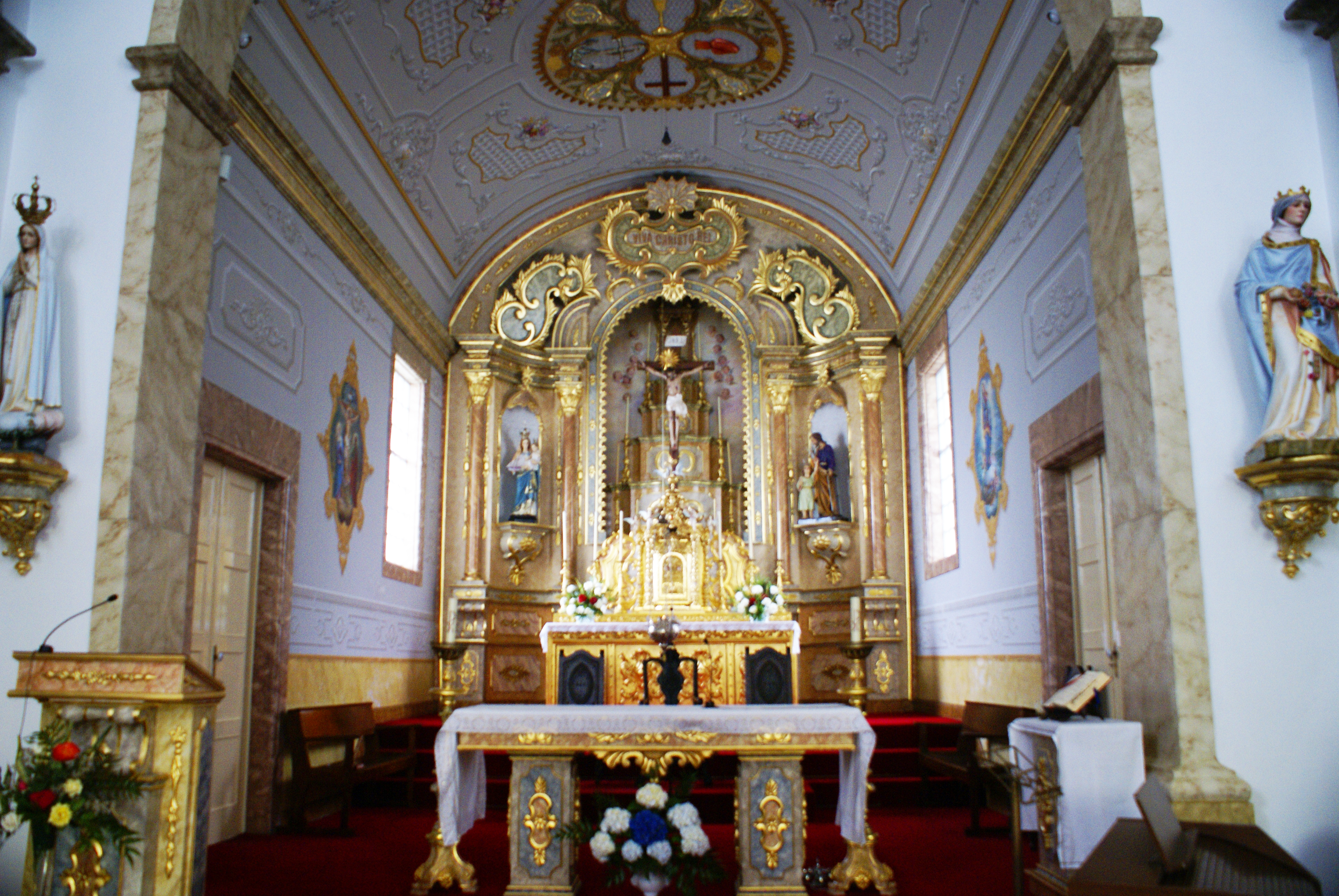 Igreja de Santa Cruz das Ribeiras, altar mor, concelho das Lajes do Pico, ilha do Pico, Açores, Portugal